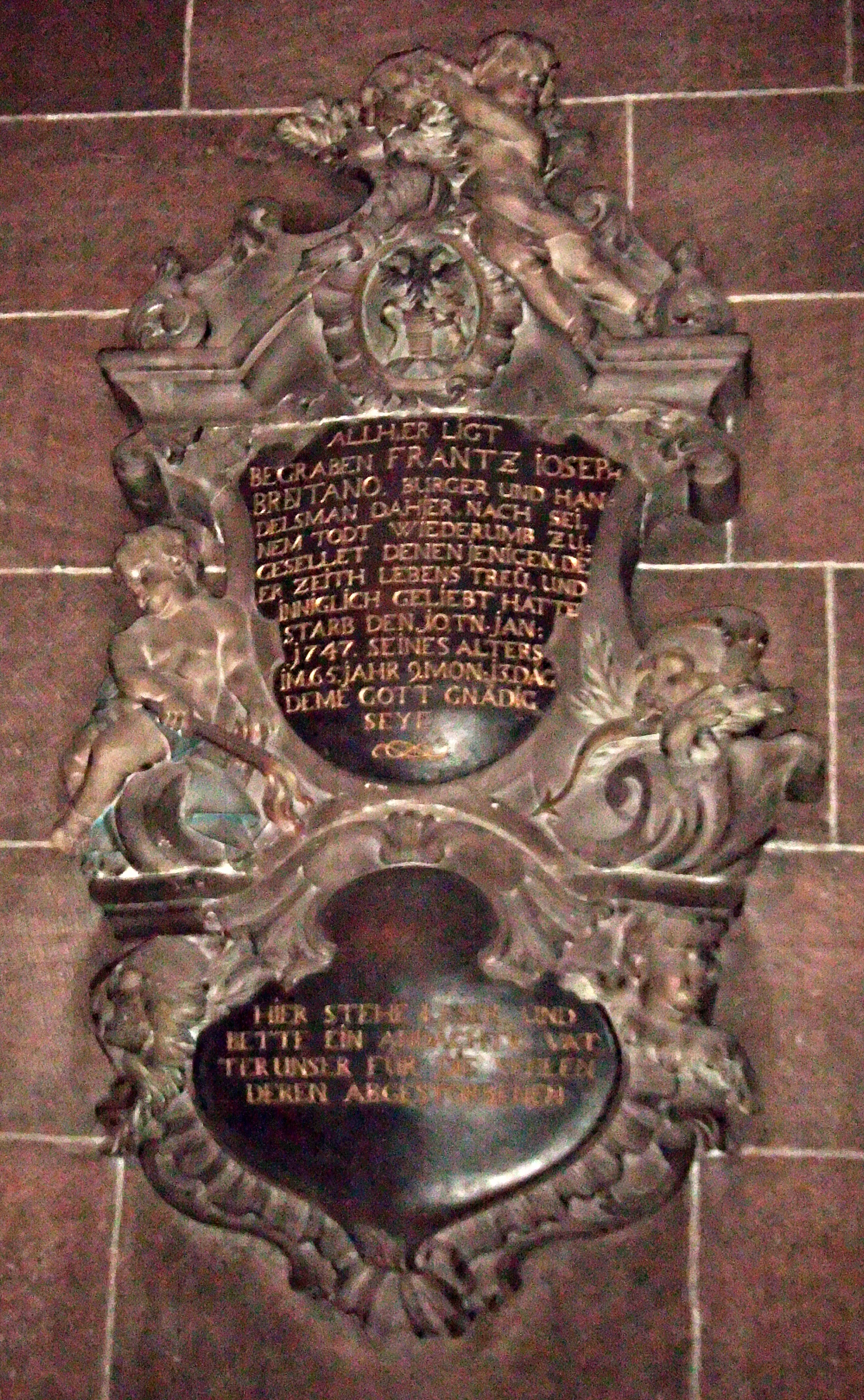 Barockepitaph des Wormser Bürgers und Handelsmannes Franz Joseph Brentano (+ 1747), aus der Johanneskirche übertragen